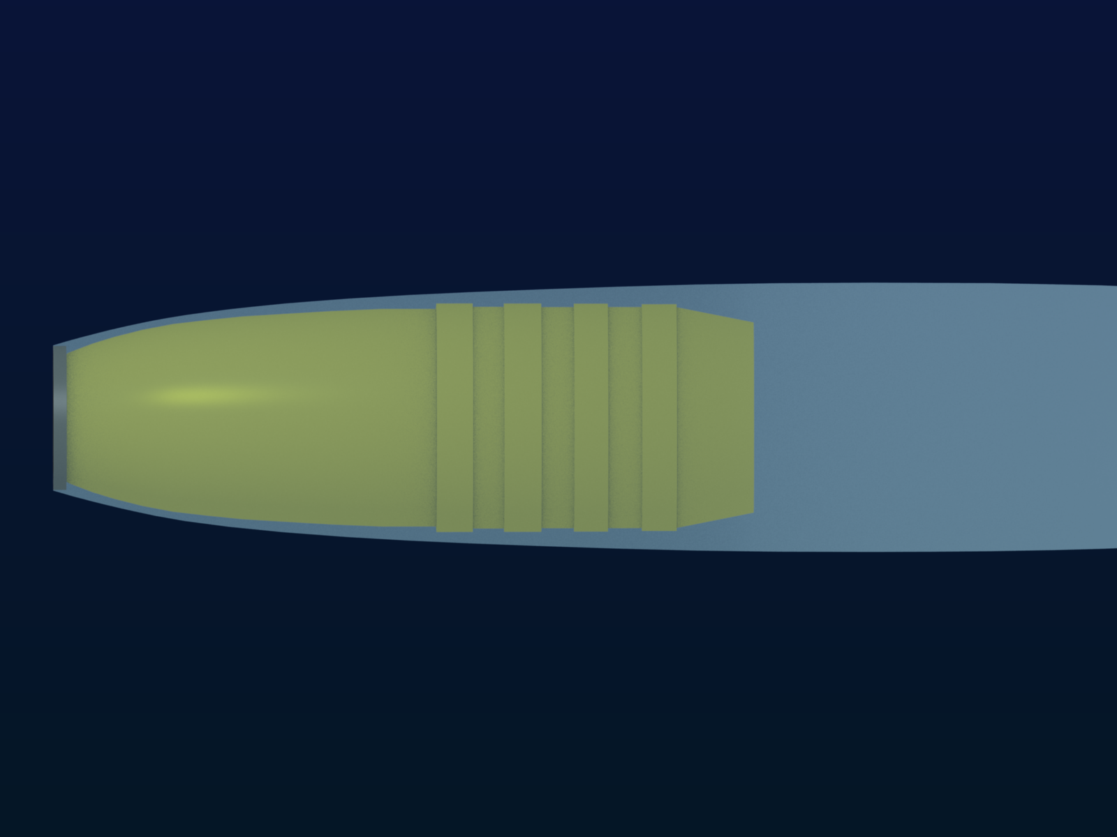 A 3D computer graphic showing the effect of supercavitation by means of a superpenetrator. The superpenetrator (cavitator) and the gas bubble are modeled and rendered with the free 3D modelling software "Blender 3D".